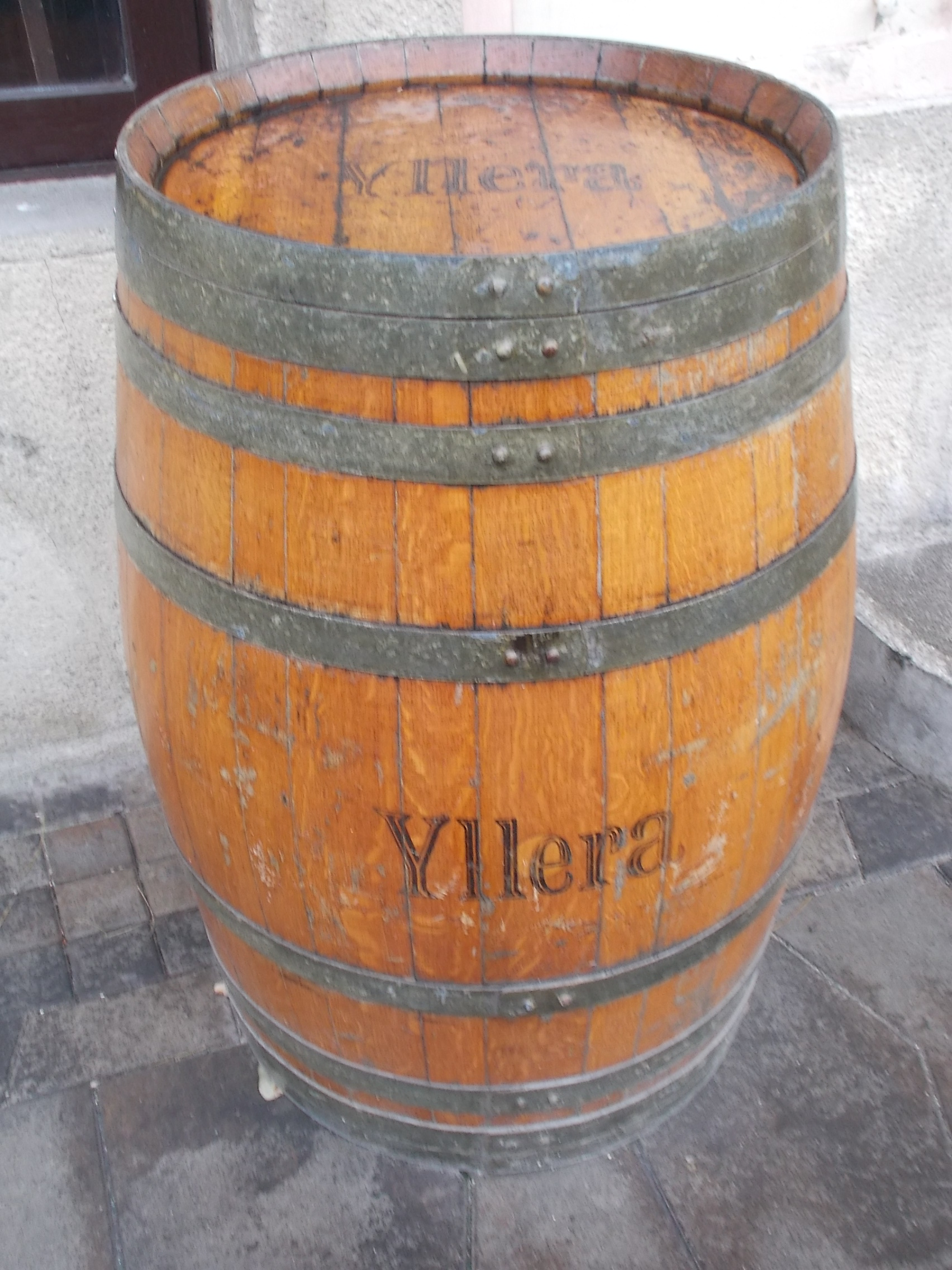 Listed corner building. Wine barrel. - 8 Kálvin Square, Inner Ferencváros neighborhood, Budapest District IX. Hungary.